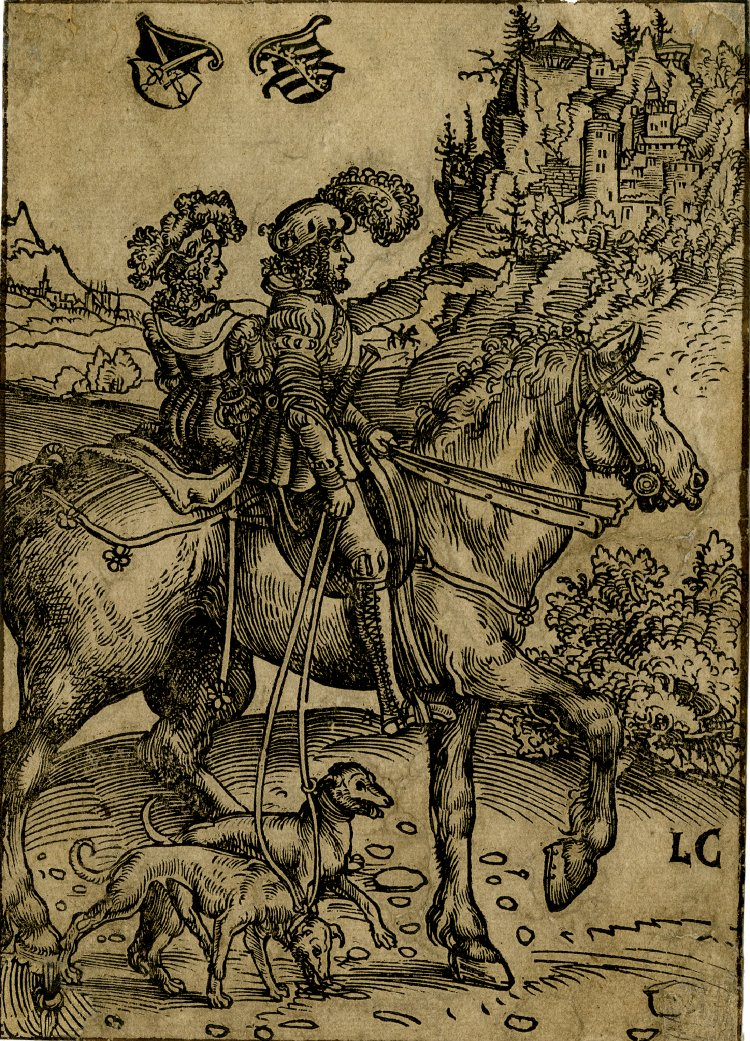 "Gentleman and Lady riding to the hunt," woodcut, by the German artist Lucas Cranach the Elder. 172 mm x 122 mm. Courtesy of the British Museum, London.